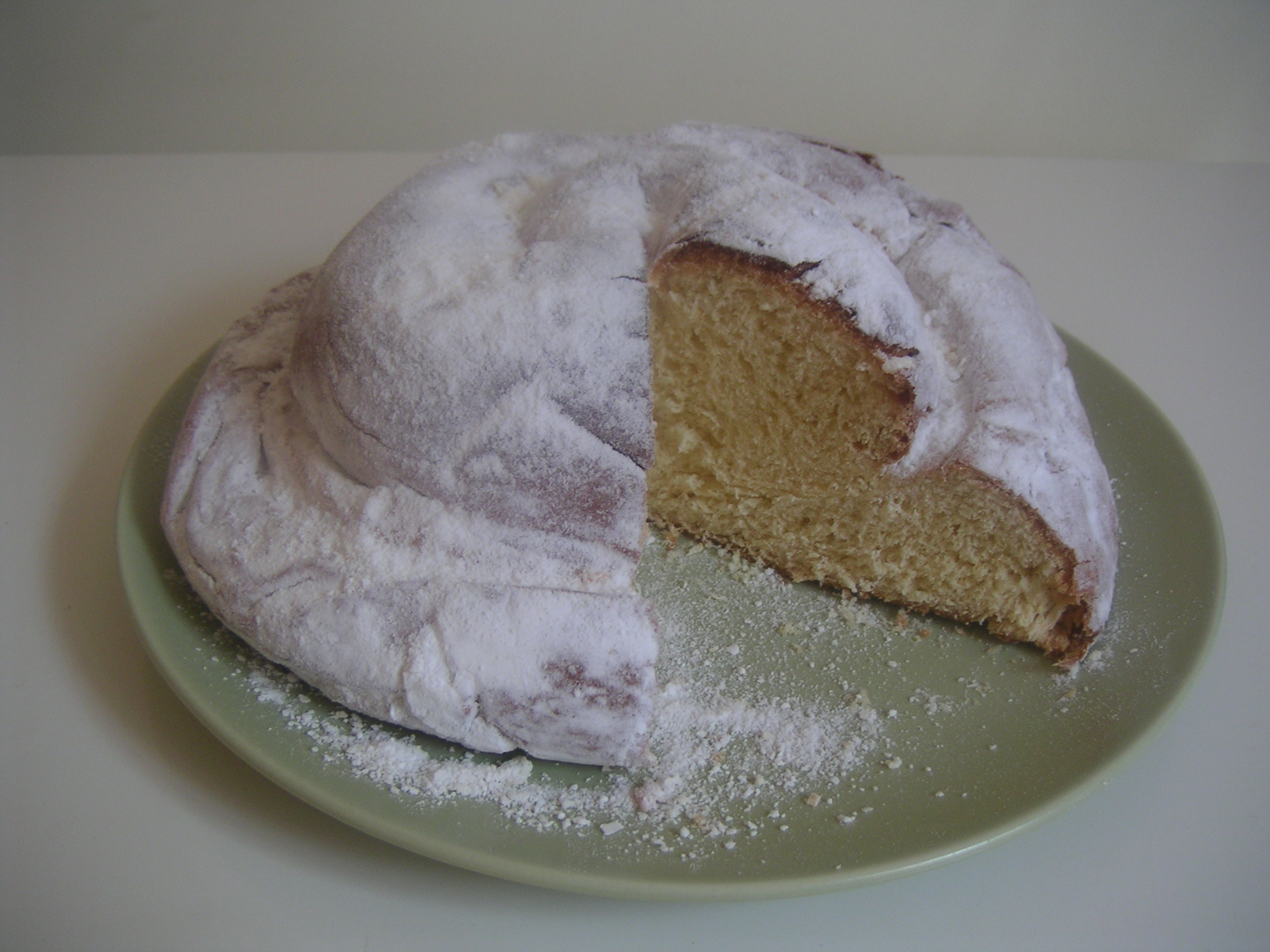 "Coca bamba" is a sort of Catalan "coca" (a cake) typique of Minorca, but also available in other areas of the country, such as Valencia. We eat it with hot chocolate in local festivities or we can also make puddings with them.